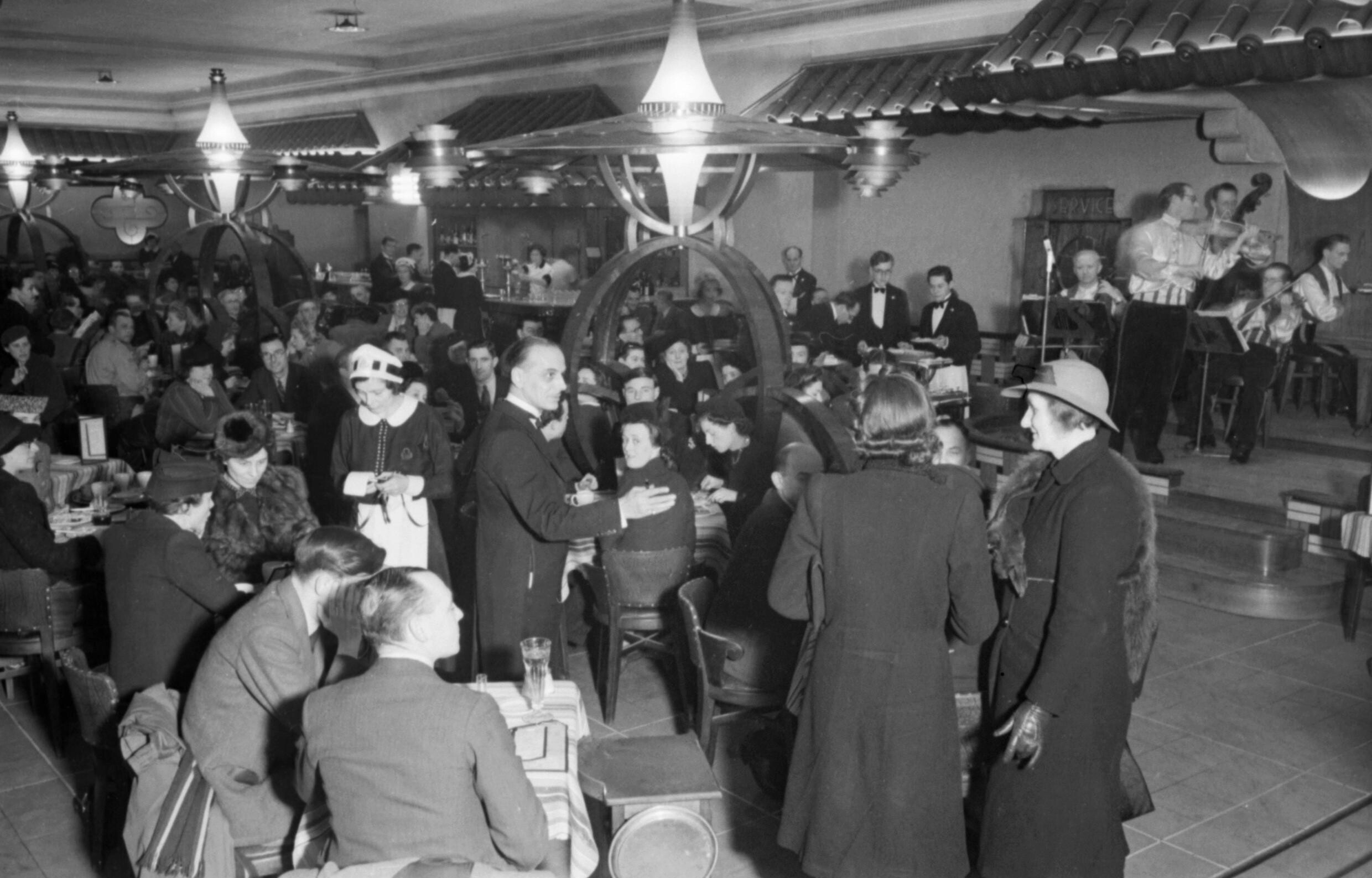 A busy scene at Lyons Corner House Brasserie, Coventry Street, London, 1942. A busy scene at Lyons Brasserie Coventry Street Corner House. Two ladies are shown to their seats by a waiter in the almost completely full restaurant. A waitress in her distinctive black and white uniform takes an order from another couple as the other diners listen to the band, visible on the right of the photograph.